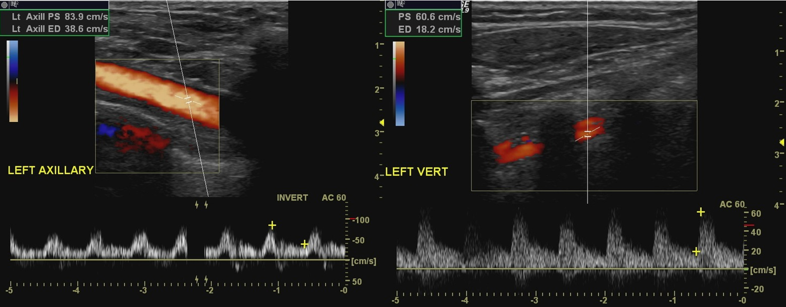 Duplex Doppler with abnormal low resistance waveform of the left subclavian artery and reversal of blood flow in the vertebral artery.